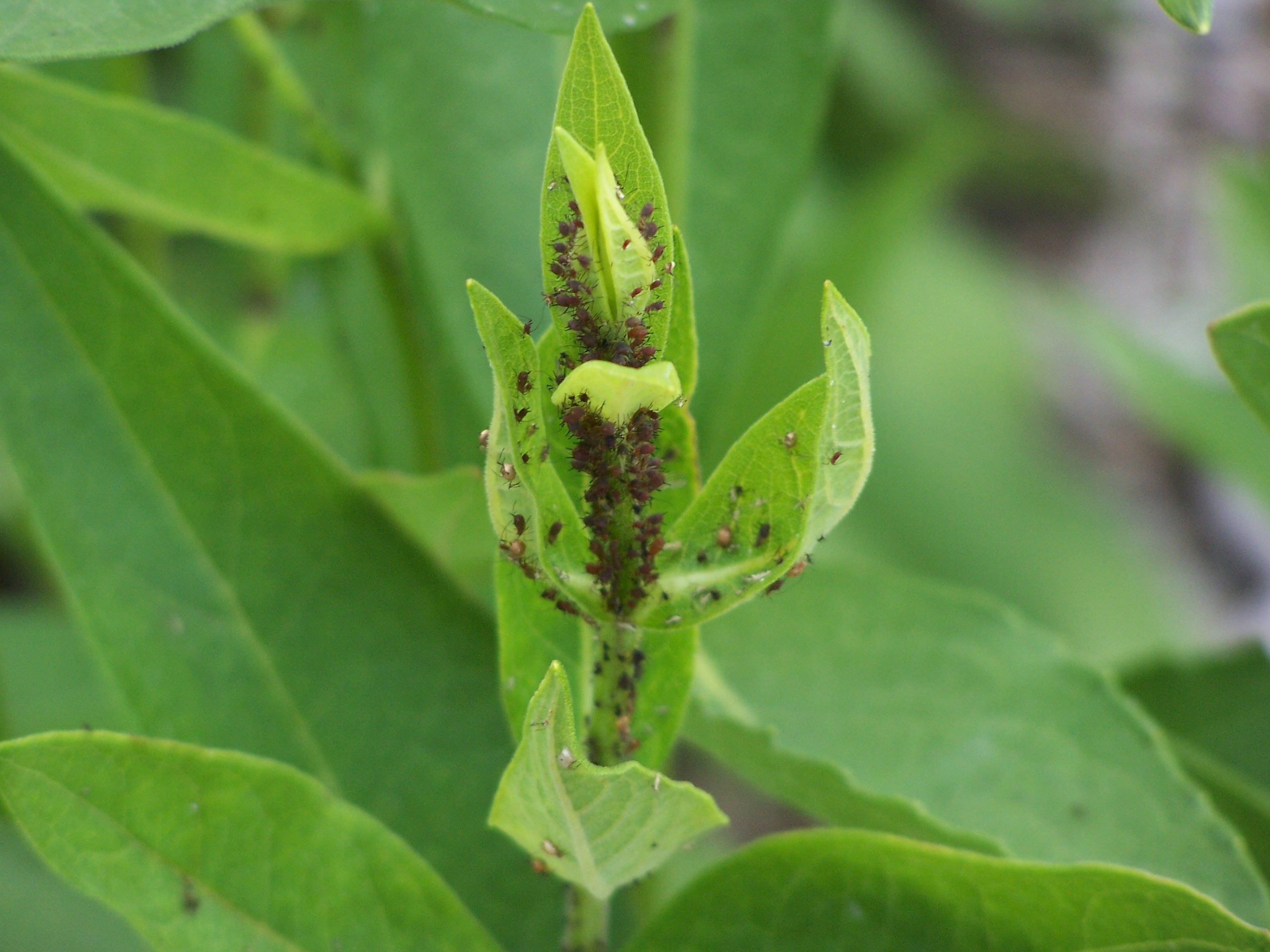 Insects on silphium integrifolium Wholeleaf Rosinweed at Minnesota Landscape Arboretum